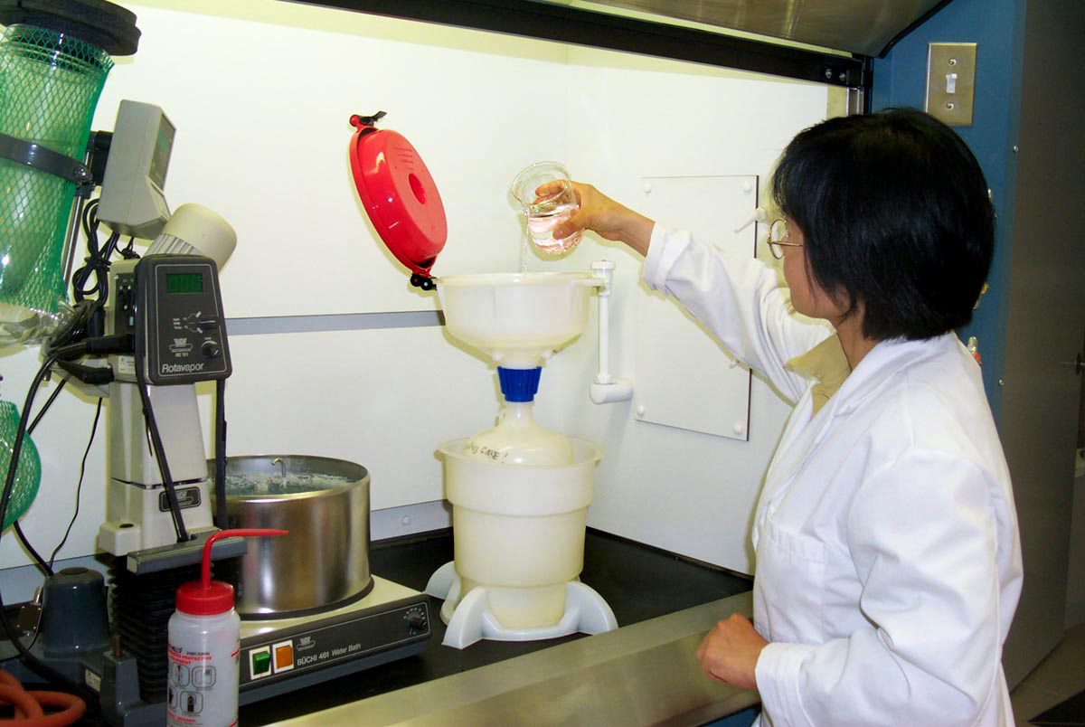 A laboratory technician demonstrates proper disposal of hazardous waste material with the ECO Funnel.